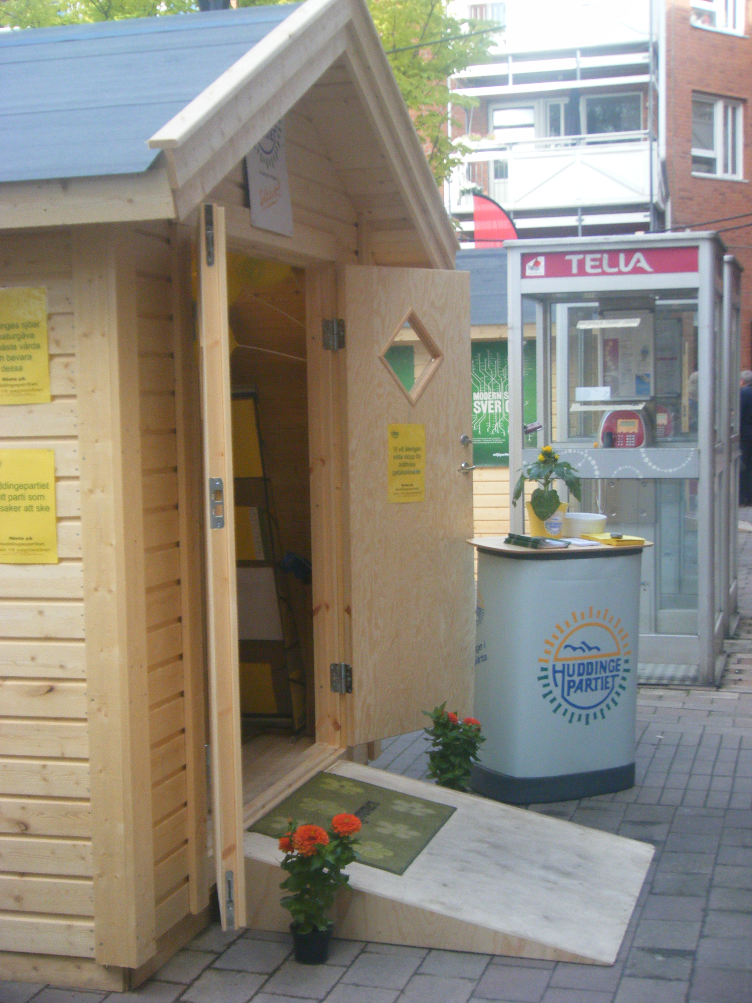 Huddingeparties choice hut in Huddinge Centrum 2010.